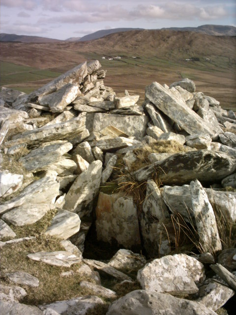 Aillemore Court Tomb